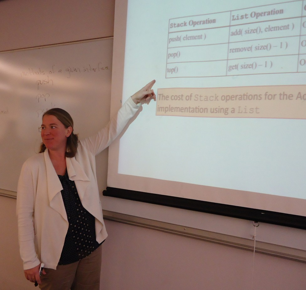 A computer science instructor teaches a class about the JAVA language, queuing, and data addressing.